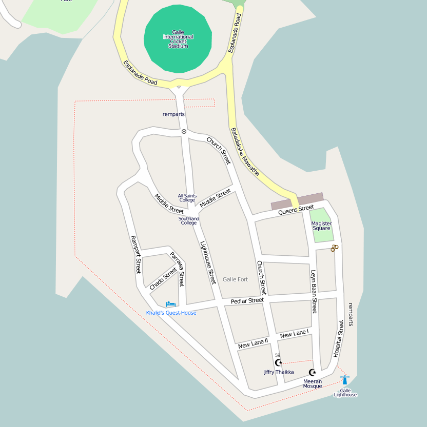 Map of Galle Fort